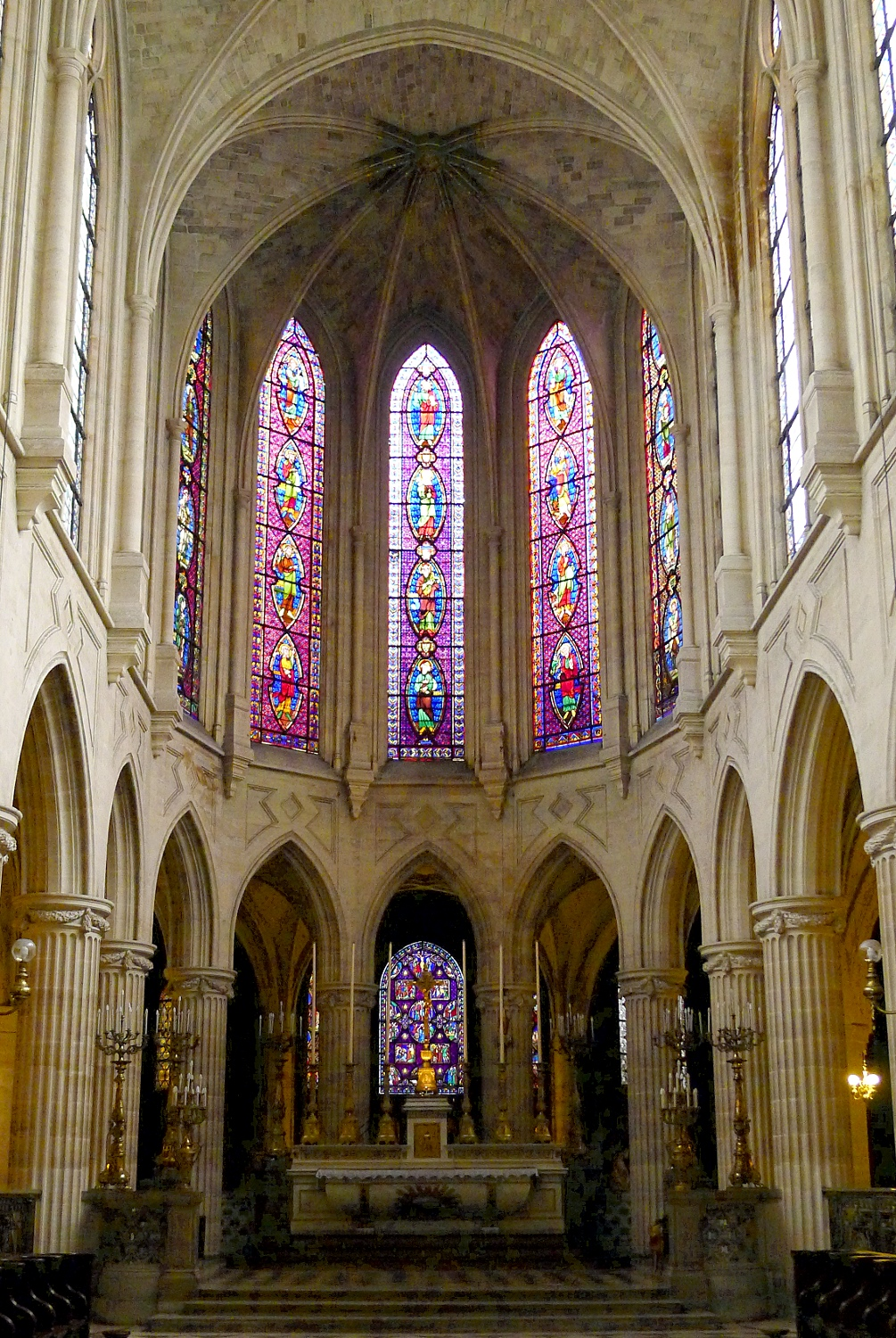 Saint-Germain l'Auxerrois church - Paris